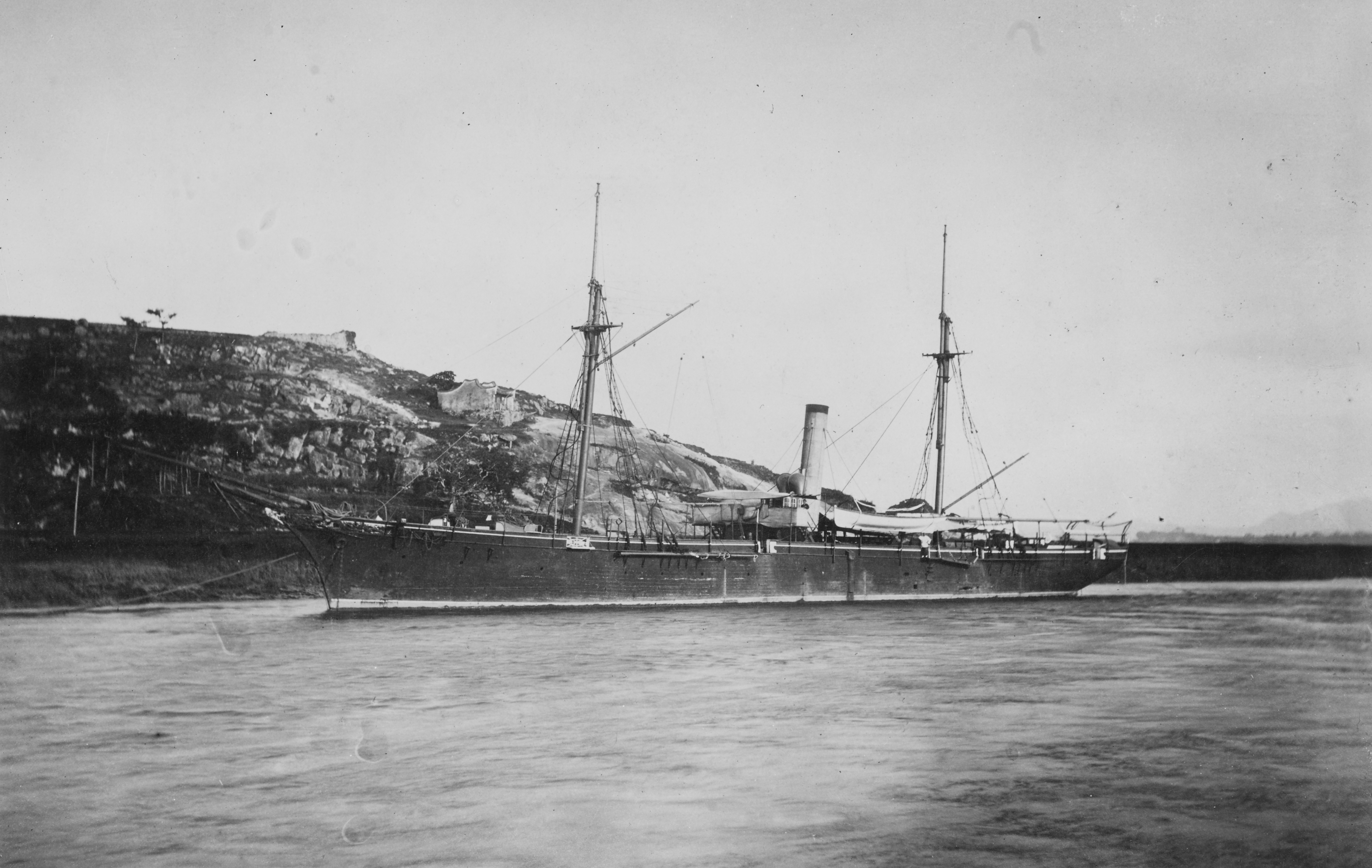 "FU-PO (Chinese gunboat, 1870)". The Fu Po was launched in 1870 as the lead ship of a class of seven gunboats/armed transports. This version has been cropped by uploader.